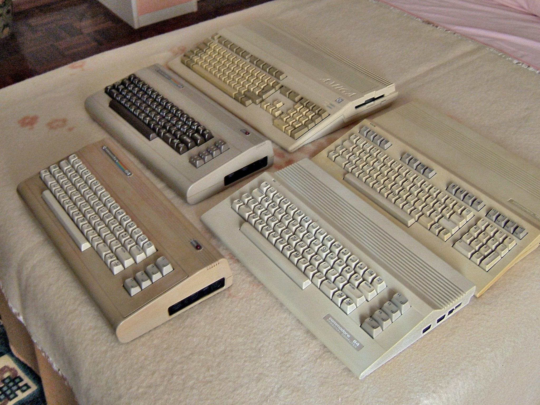 Commodore computers of the 1980s- an Amiga 500, three versions of the Commodore 64, and a Commodore 128